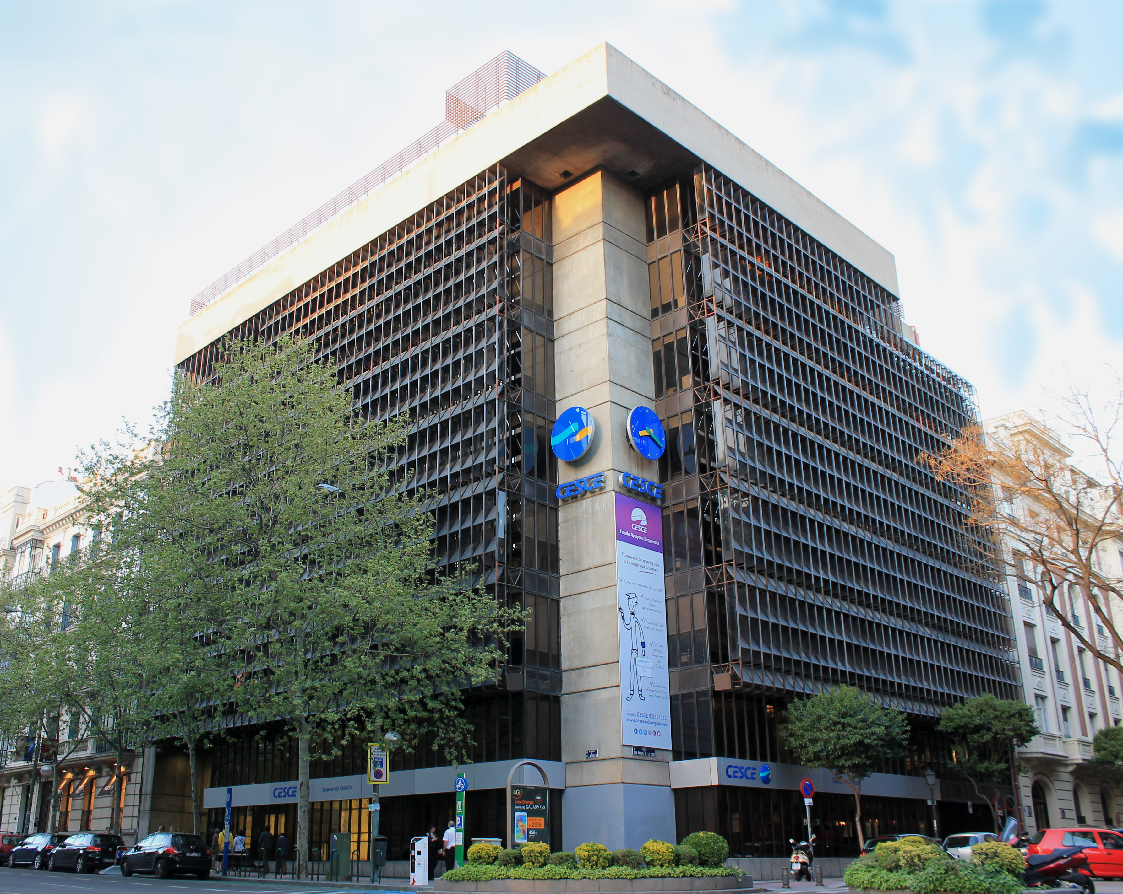 Headquarters of CESCE (Spanish Investment Insurance Agency) at 74 Calle de Velázquez (street) in Salamanca district in Madrid. Building was designed in 1975 by Eleuterio Población Knappe and built between 1976 and 1979.